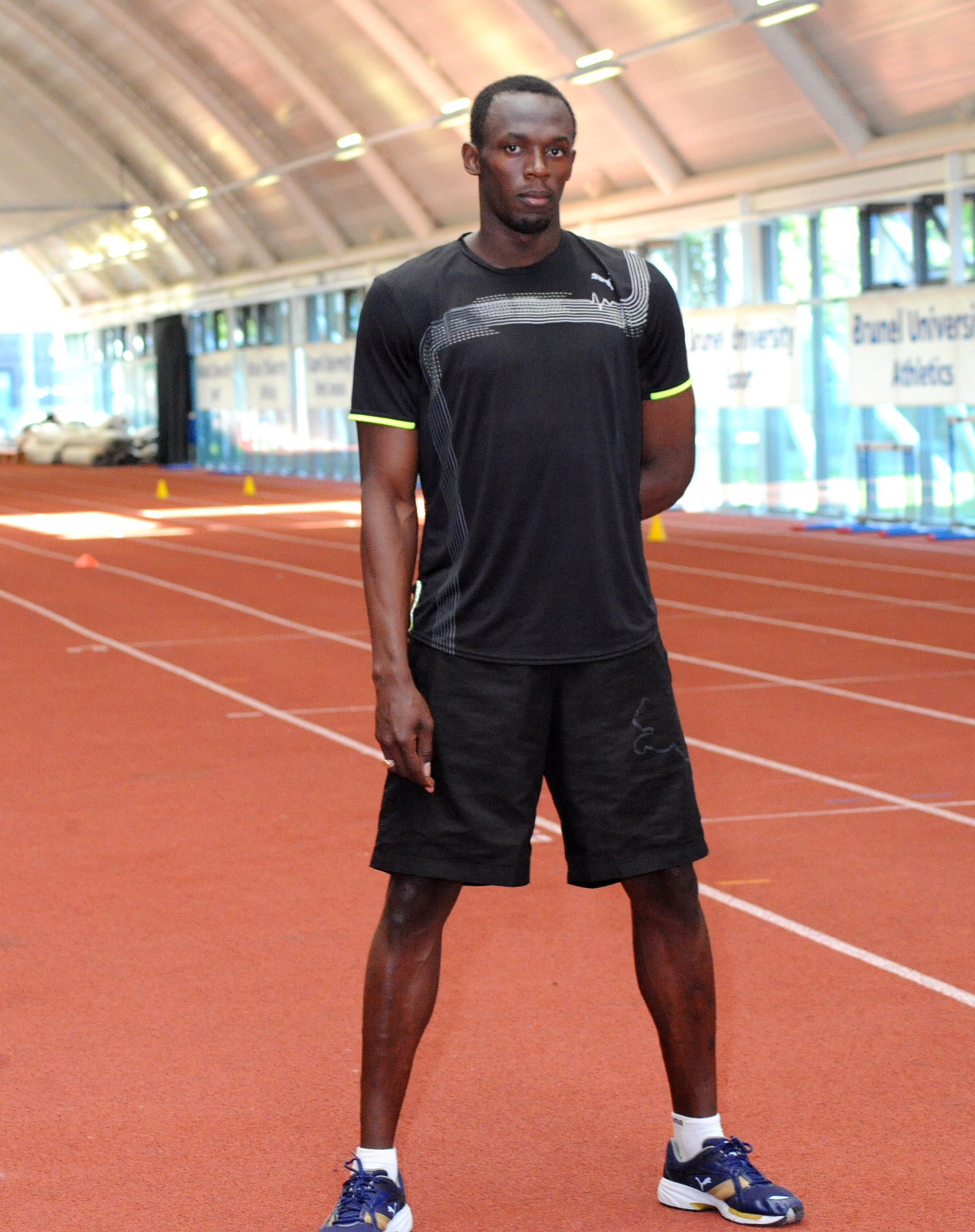 Sprinting legend Usain Bolt pictured in Brunel University's indoor athletics Centre. Usain used Brunel as a European training base prior to the 2009 Berlin Athletics World Championships.